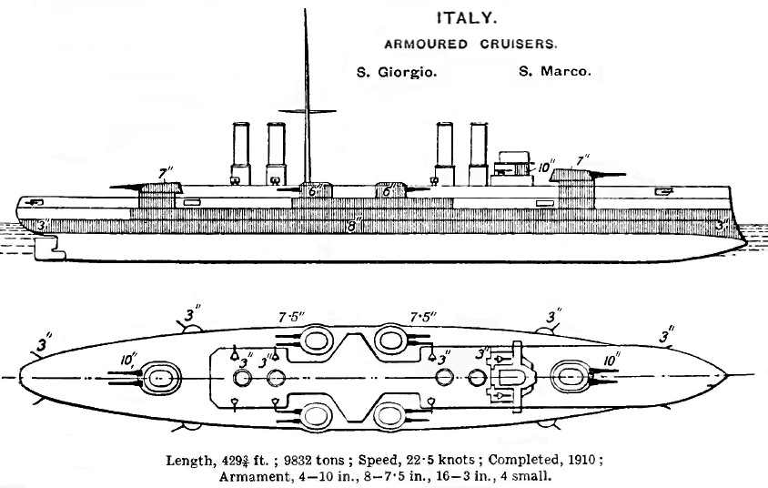 Right elevation and deck plan diagrams depicting Italian San Marco class armoured cruiser. Top diagram shows armour thickness in inches; bottom diagram shows gun calibres in inches.